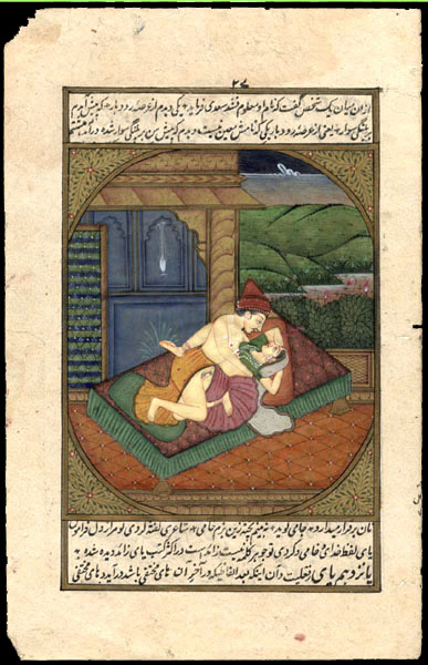 Kama Sutra Illustration